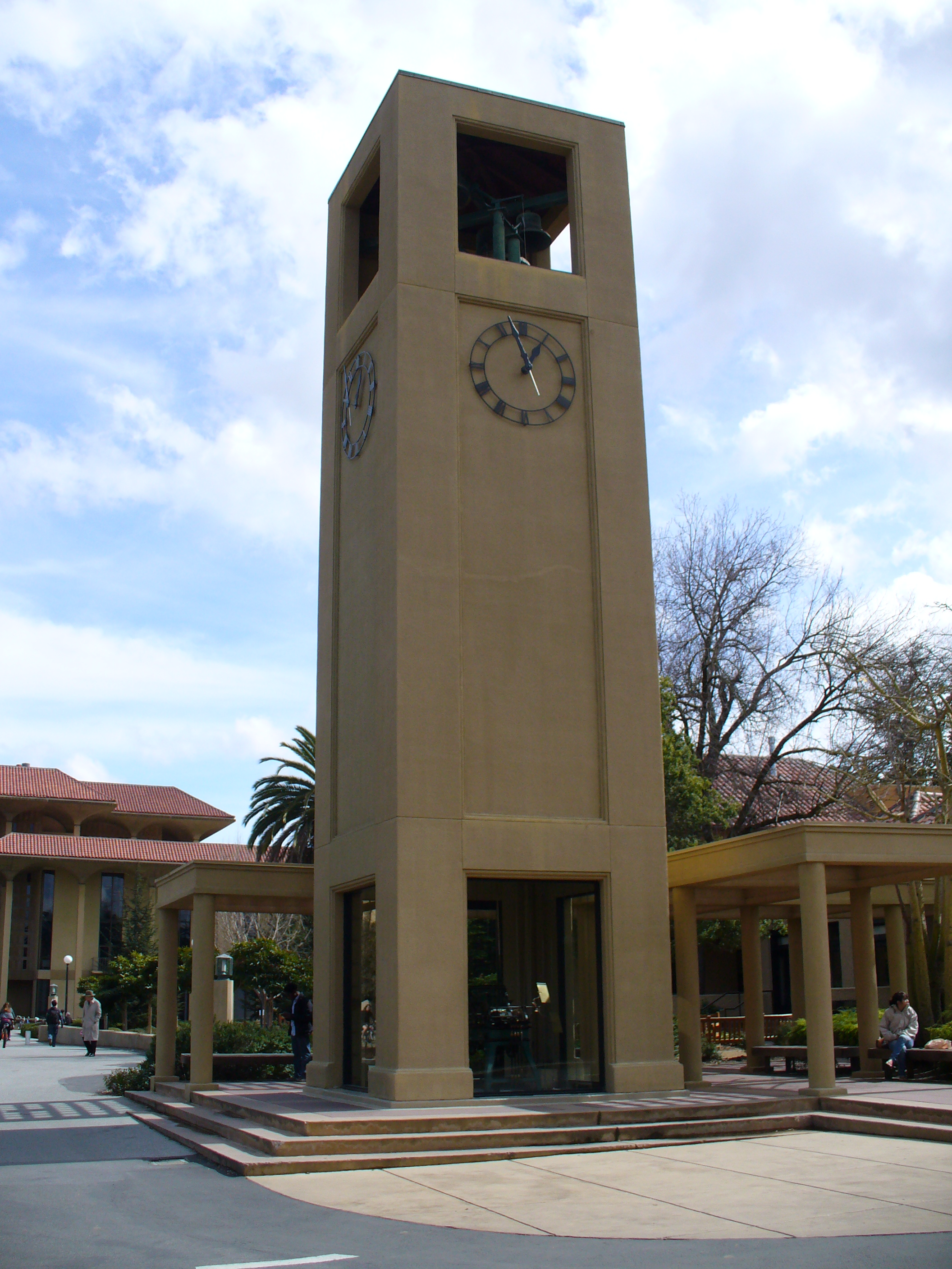 Photo of the Stanford Clock Tower (on the campus of Stanford University)